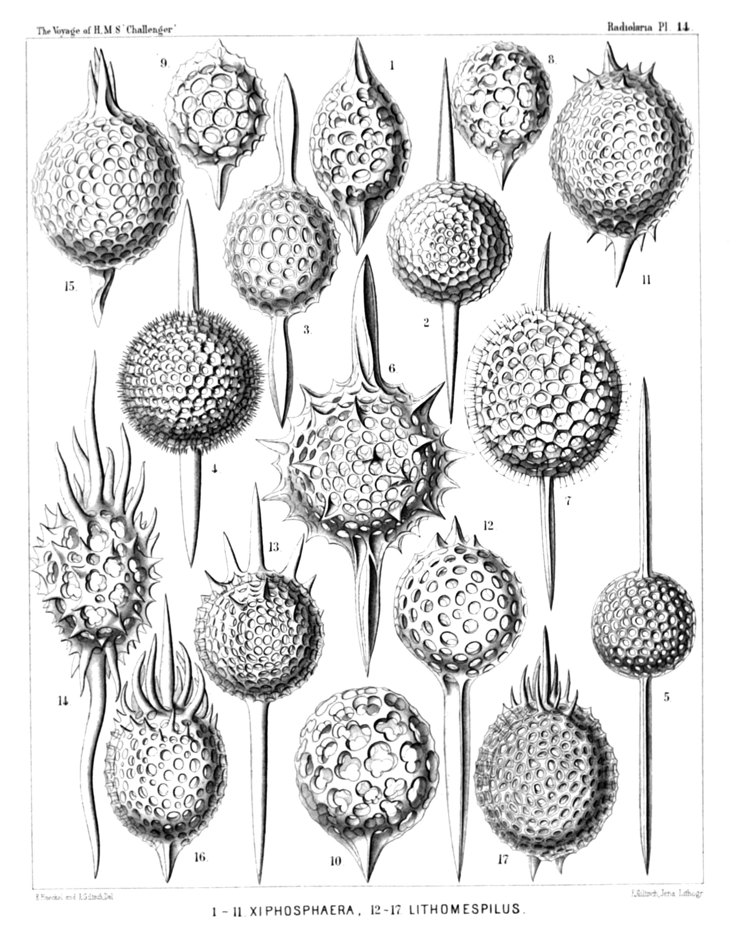 Illustration from Report on the Radiolaria collected by H.M.S. Challenger during the years 1873-1876. Part III. Original description follows: Plate 14. Stylosphærida et Ellipsida.Diam.Fig. 1. Ellipsoxiphus atractus, n. sp.,×300Fig. 2. Xiphosphæra venus, n. sp.,×300Fig. 3. Ellipsoxiphus claviger, n. sp.,×300Fig. 4. Xiphosphæra pallas, n. sp.,×400Fig. 5. Xiphosphæra gæa, n. sp.,×400Fig. 6. Xiphosphæra vesta, n. sp.,×300Fig. 7. Ellipsoxiphus elegans, n. sp., var. palliatus,×400Fig. 8. Lithapium halicapsa, n. sp.,×300Fig. 9. Lithapium pyriforme, n. sp.,×300Fig. 10. Lithapium monocyrtis, n. sp.,×300Fig. 11. Ellipsoxiphus bipolaris, n. sp.,×600Fig. 12. Xiphostylus trogon, n. sp.,×400Fig. 13. Xiphostylus picus, n. sp.,×300Fig. 14. Lithomespilus flammabundus, n. sp.,×400Fig. 15. Xiphostylus alauda, n. sp.,×400Fig. 16. Lithomespilus phloginus, n. sp.,×600Fig. 17. Lithomespilus phlogoides, n. sp.,×600